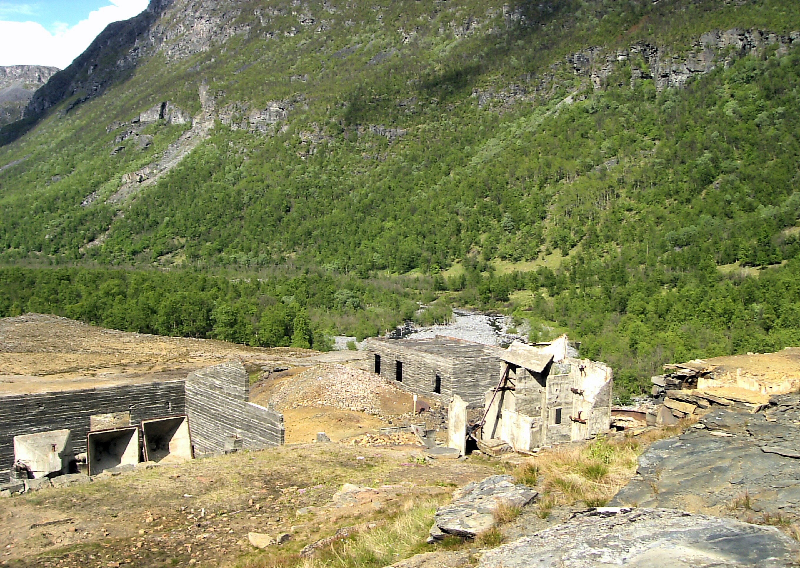 Ruins of Ankerlia Copper mine, Birtavarre, Troms, Norway